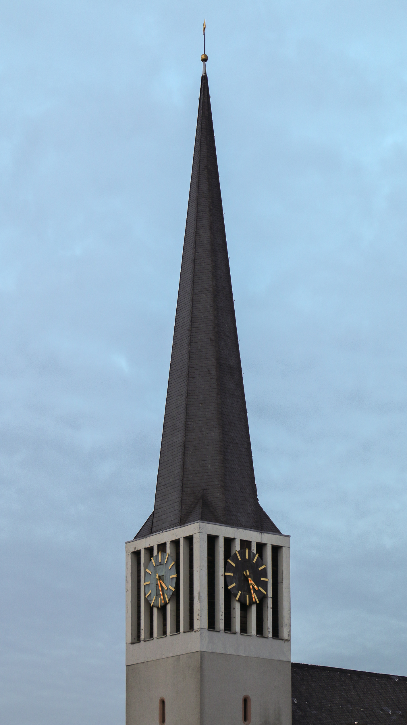 The tower of St. Georg in Mainz-Kastel, Germany